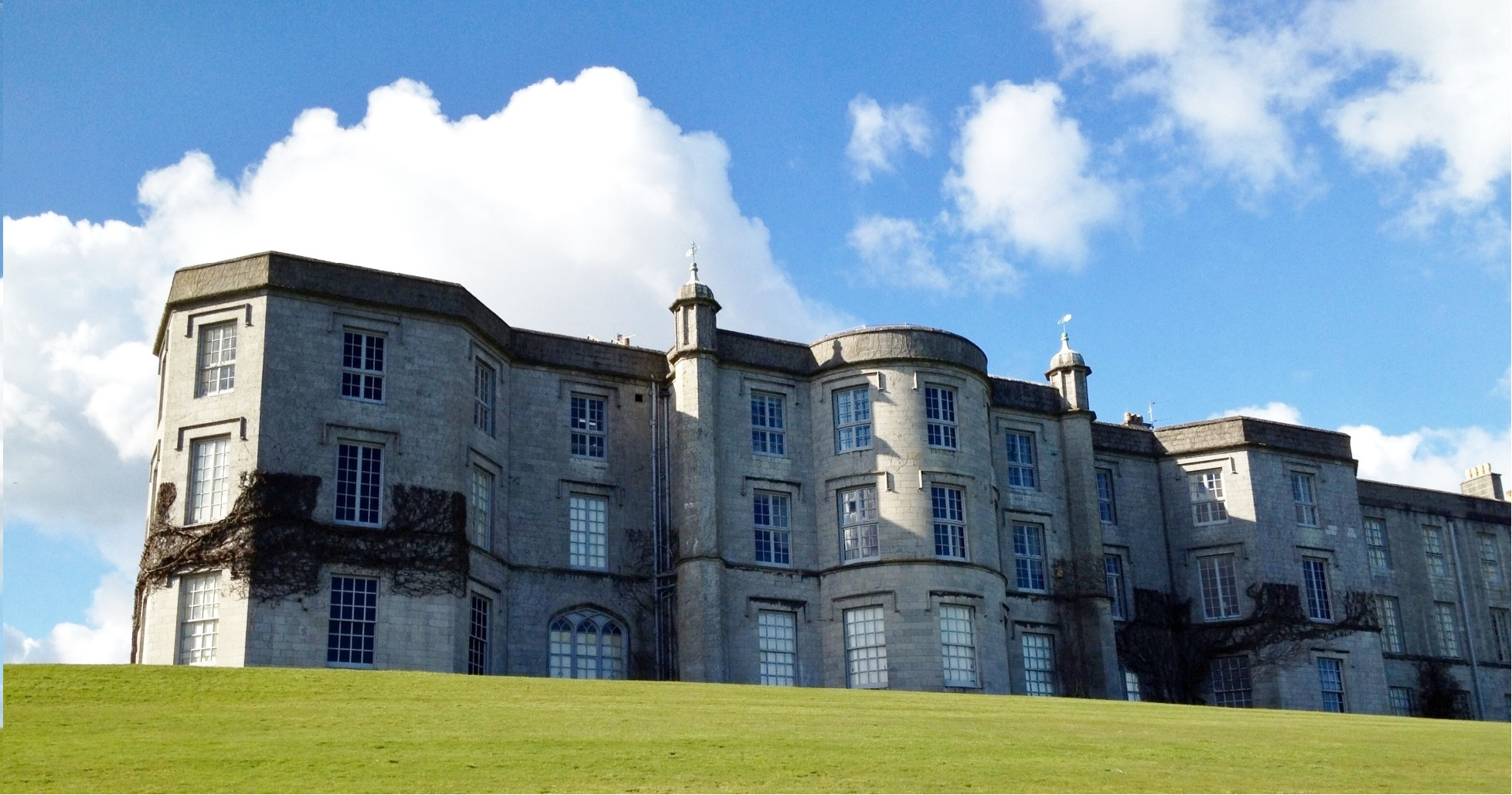 Image depicts Plas Newydd, Anglesey.